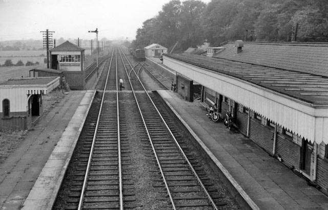 Brandon & Wolston Station (remains) View westward, towards Coventry and Birmingham; LNW London - Rugby - Coventry - Birmingham main line. The station was intact in 1962 although closed to passengers on 12/9/60, remaining open for goods until 7/12/64. The line is of course now electrified and and very busy. (Note the chap running across the line).